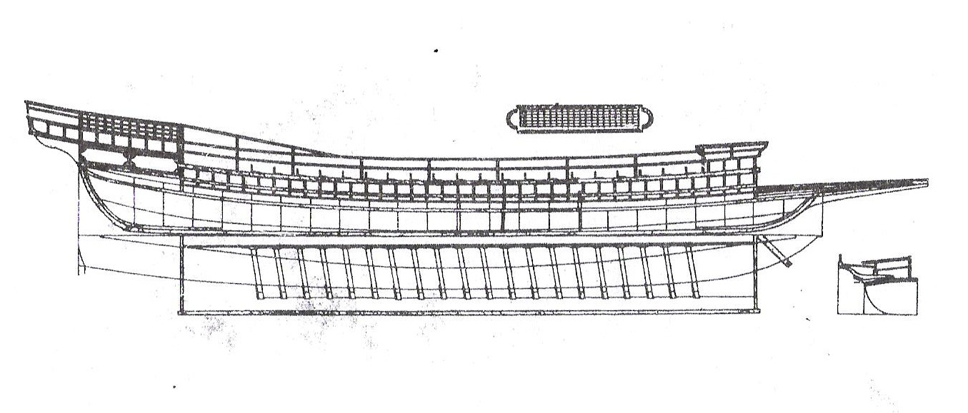 Galley 1736